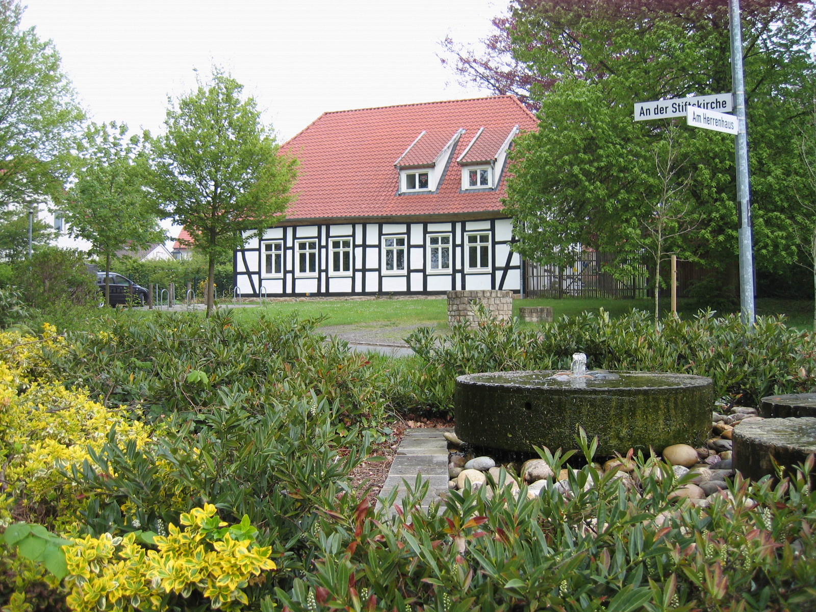 Saint Mary church in Kirchlengern, County of Herford, North Rhine-Westphalia, Germany. This is a photograph of an architectural monument.